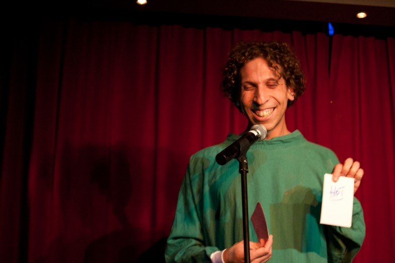 Picture of artist Brian Lobel